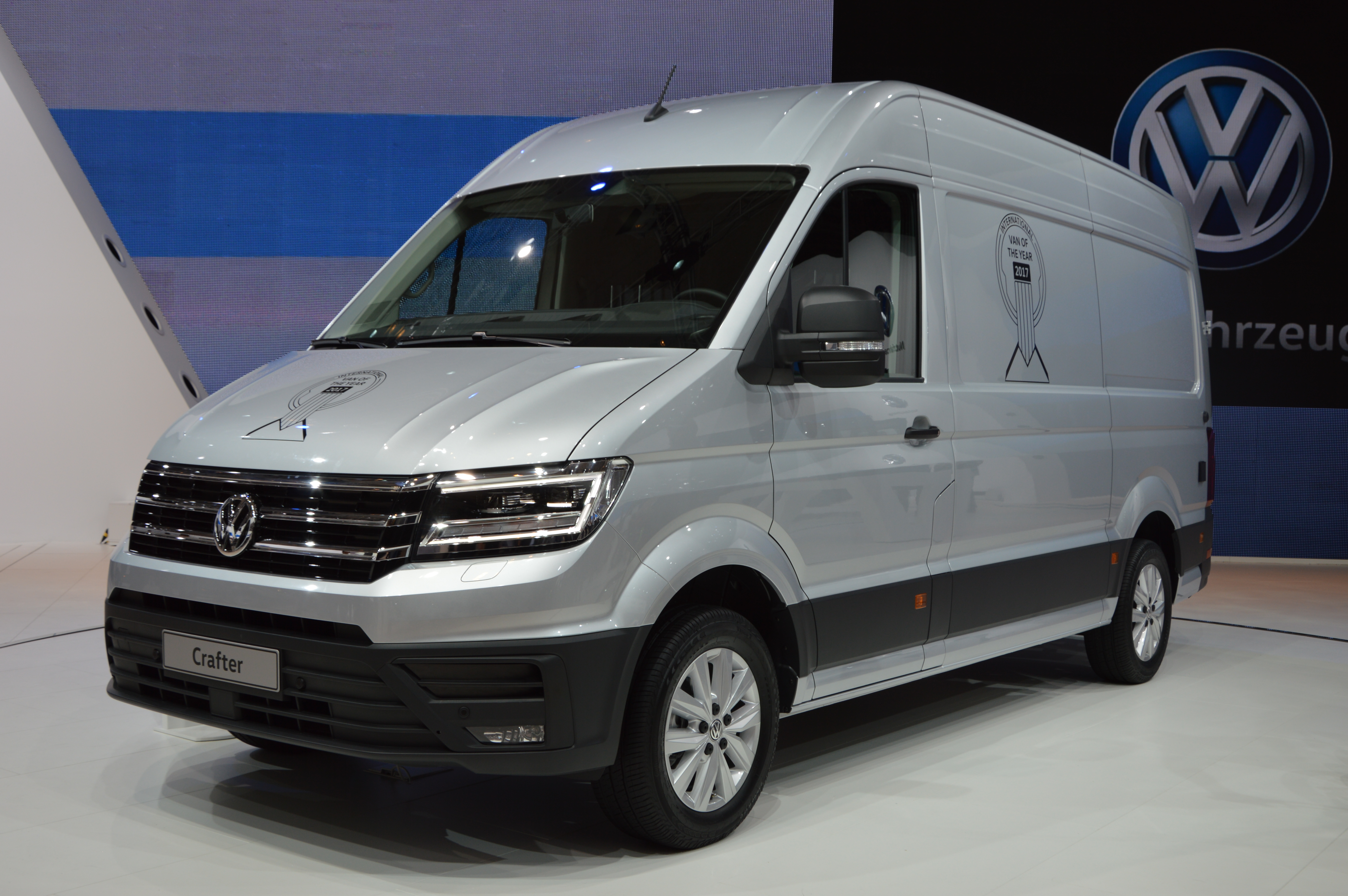 The new Volkswagen Crafter built since 2016 by Volkswagen Nutzfahrzeuge in Września, Poland. Van of the Year 2017